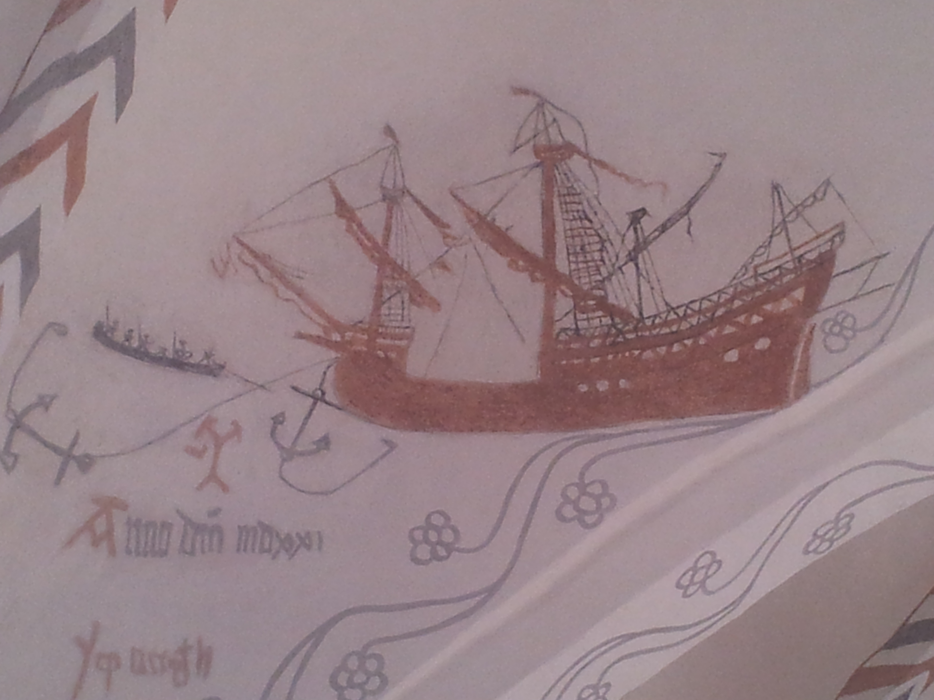 A very large ship of the Danish navy, possibly the Maria of 1514. The fresco in Ebeltoft church is dated 1521 (MDXXI) and also mentions a Jep Høgh, of whom nothing is known.